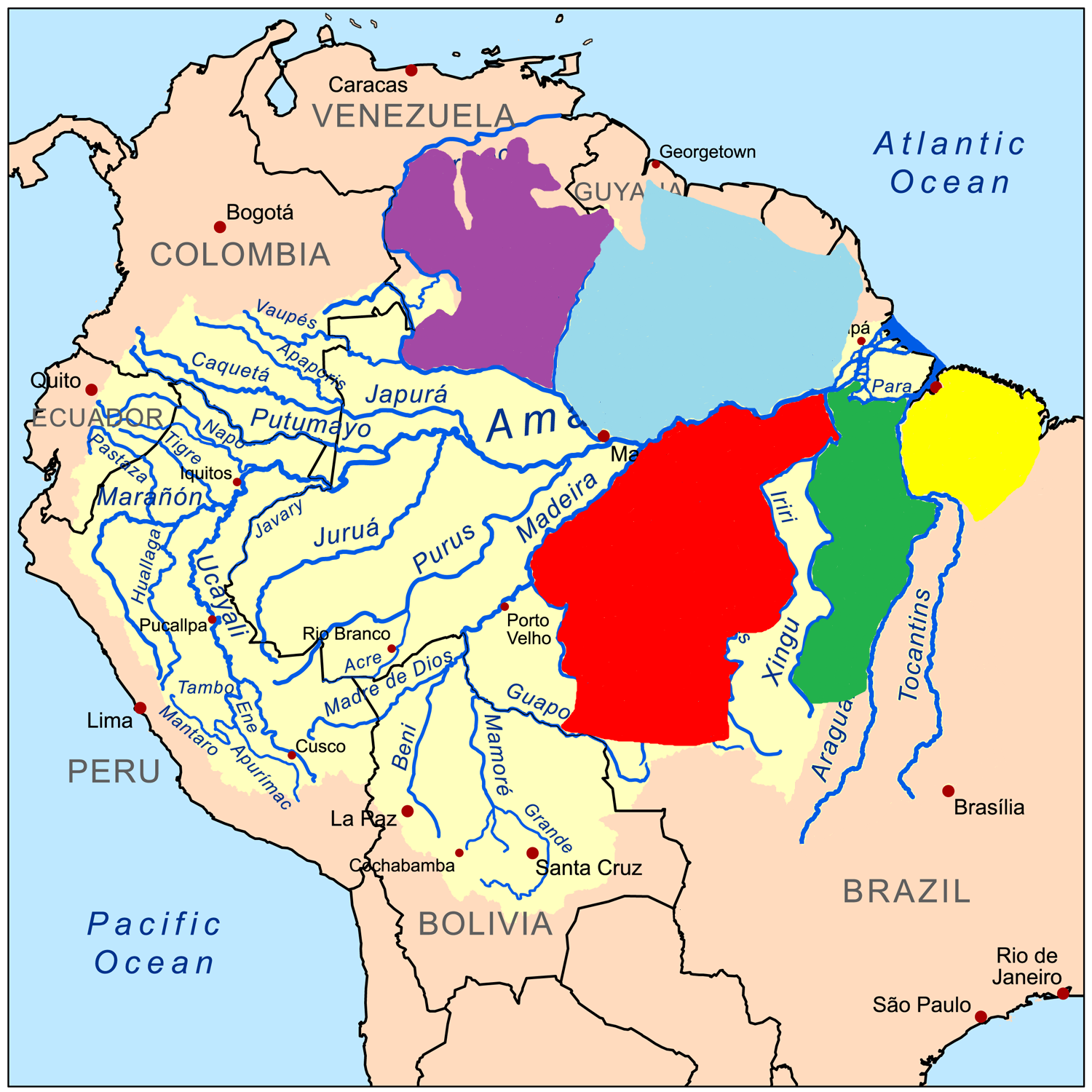 Distribution of Chiropotes Species